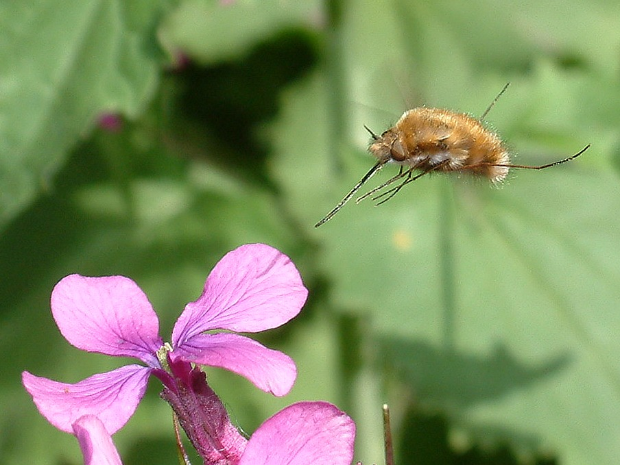 Bombylius major (approaching Lunaria annua)